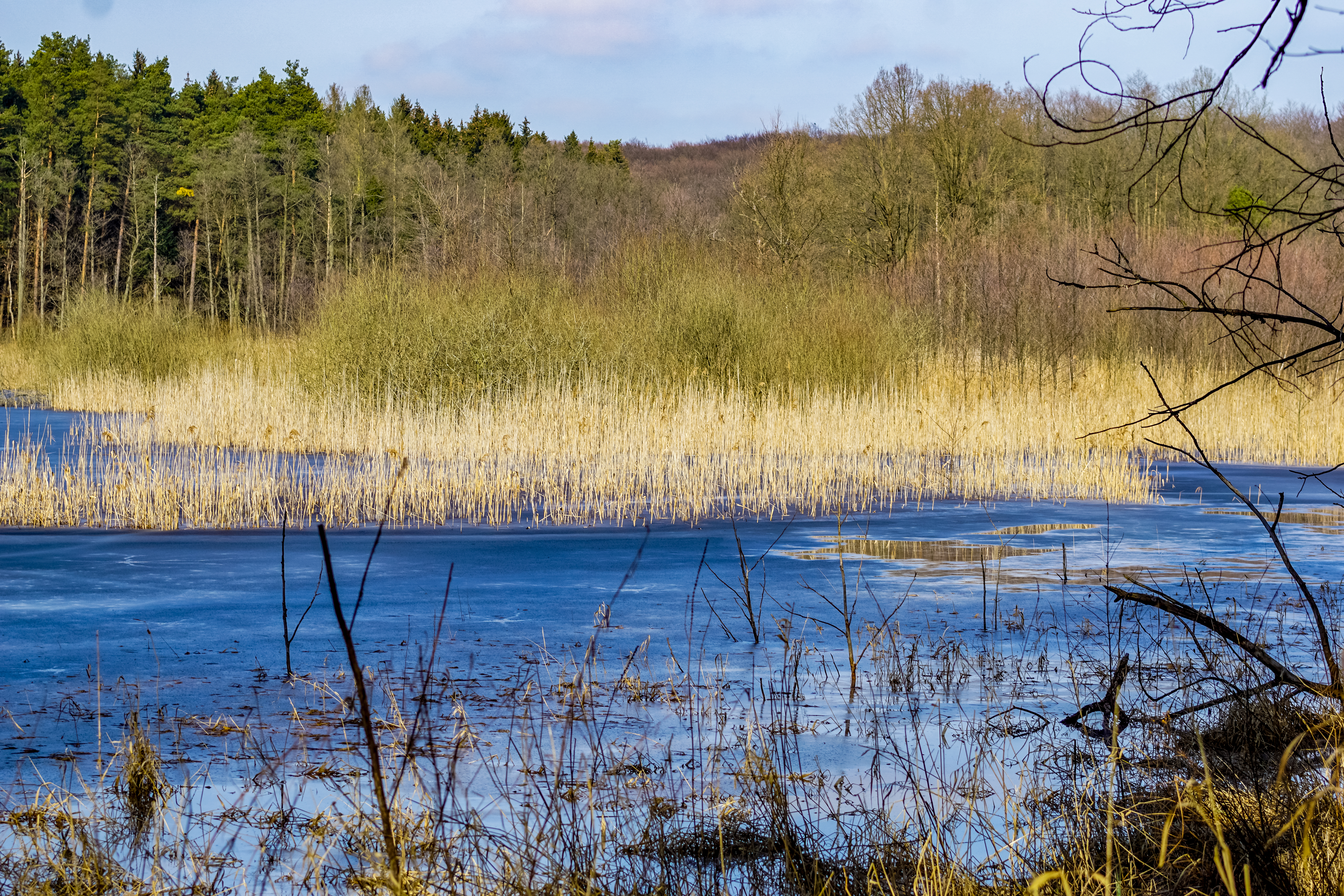 Kleiner Kelpinsee frozen with ice in winter - Moränenlandschaft Poratz